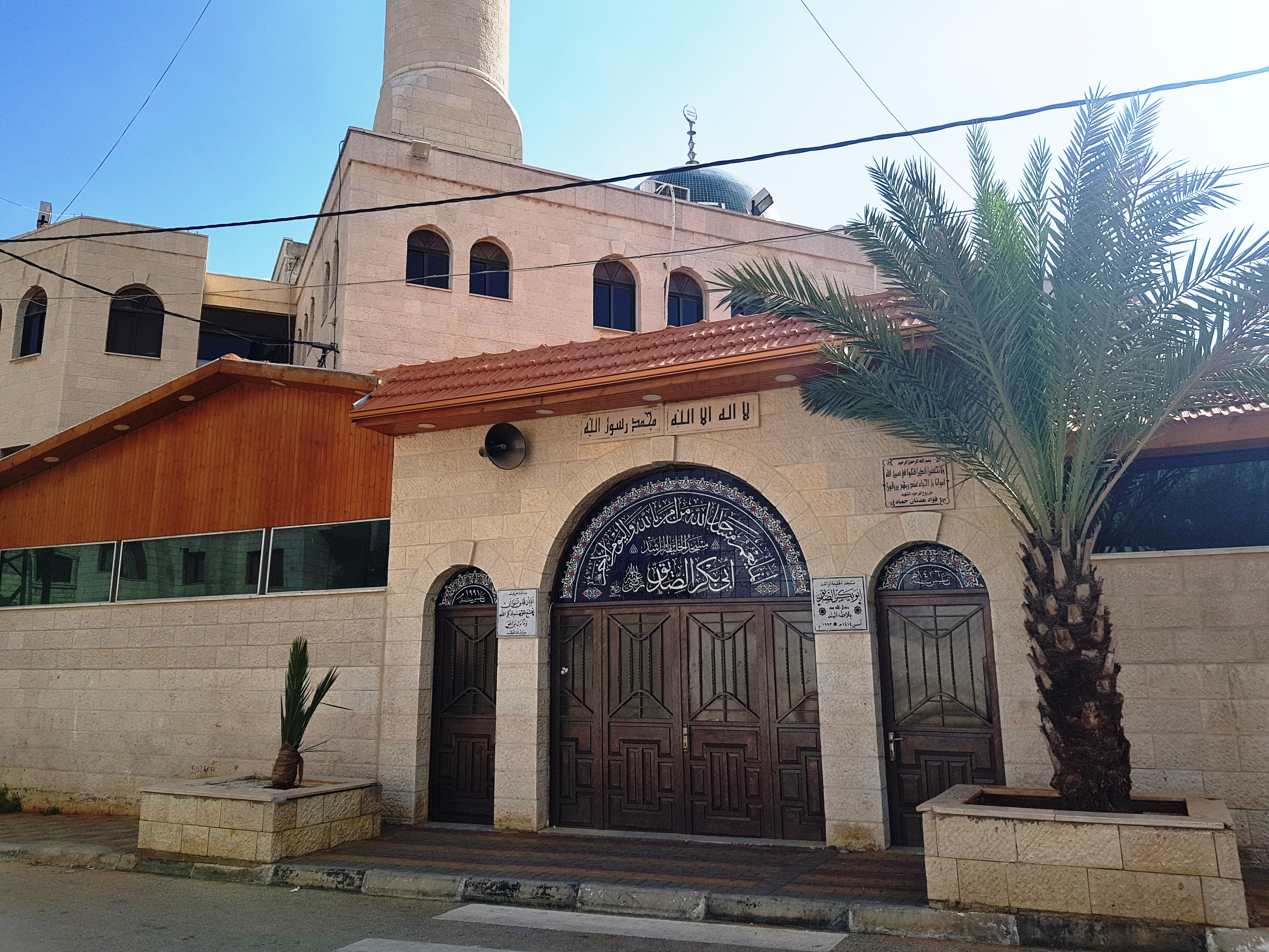 Abu Bakr Al-Siddiq Mosque, Balata Al-Balad, Nablus, Palestine.